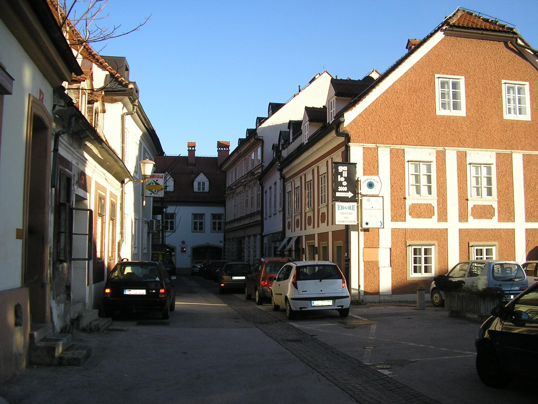 Jewish street (Židovska ulica) in Maribor, Slovenia.